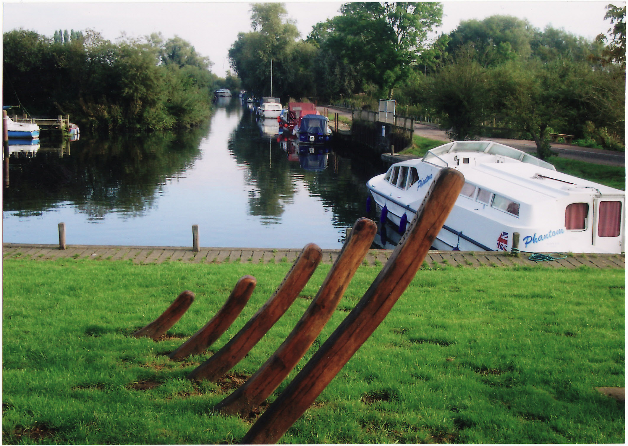 Picture of Rockland Staithe